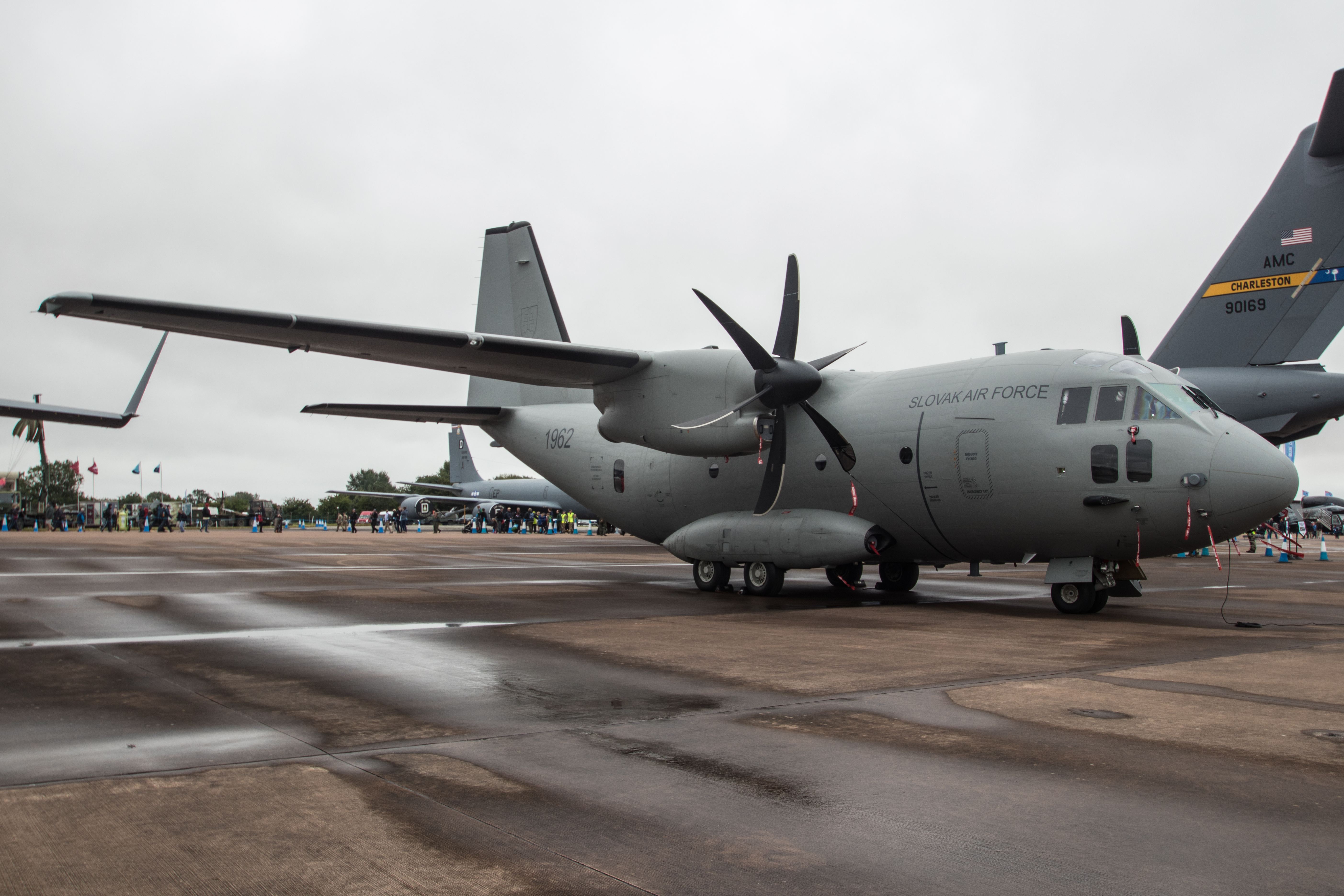 C-27J Spartan of the Slovak Air Force at Royal International Air Tattoo 2019, RAF Fairford